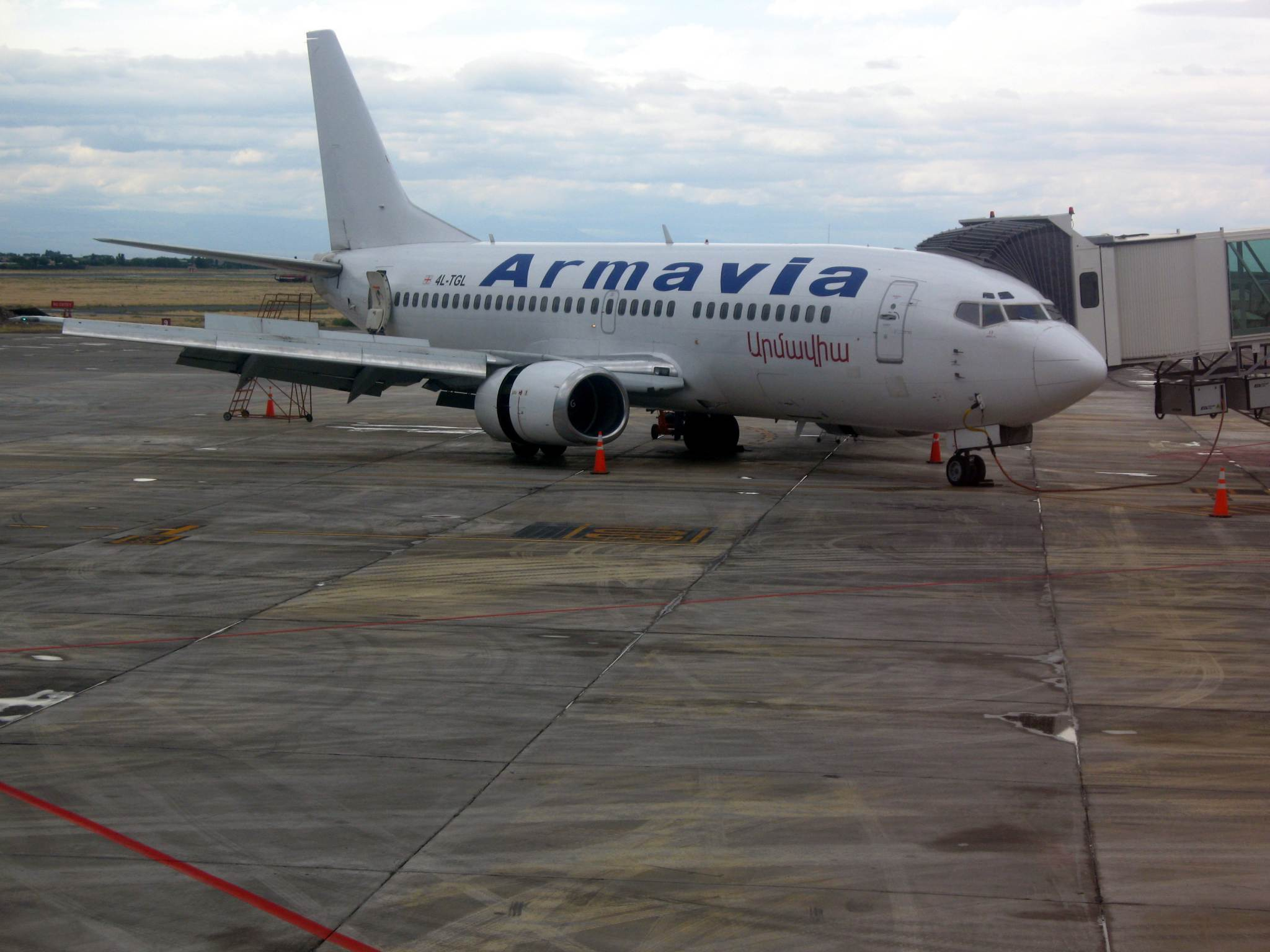 Armavia B737-300 udergoing routine maintenance at Zvartnots Airport